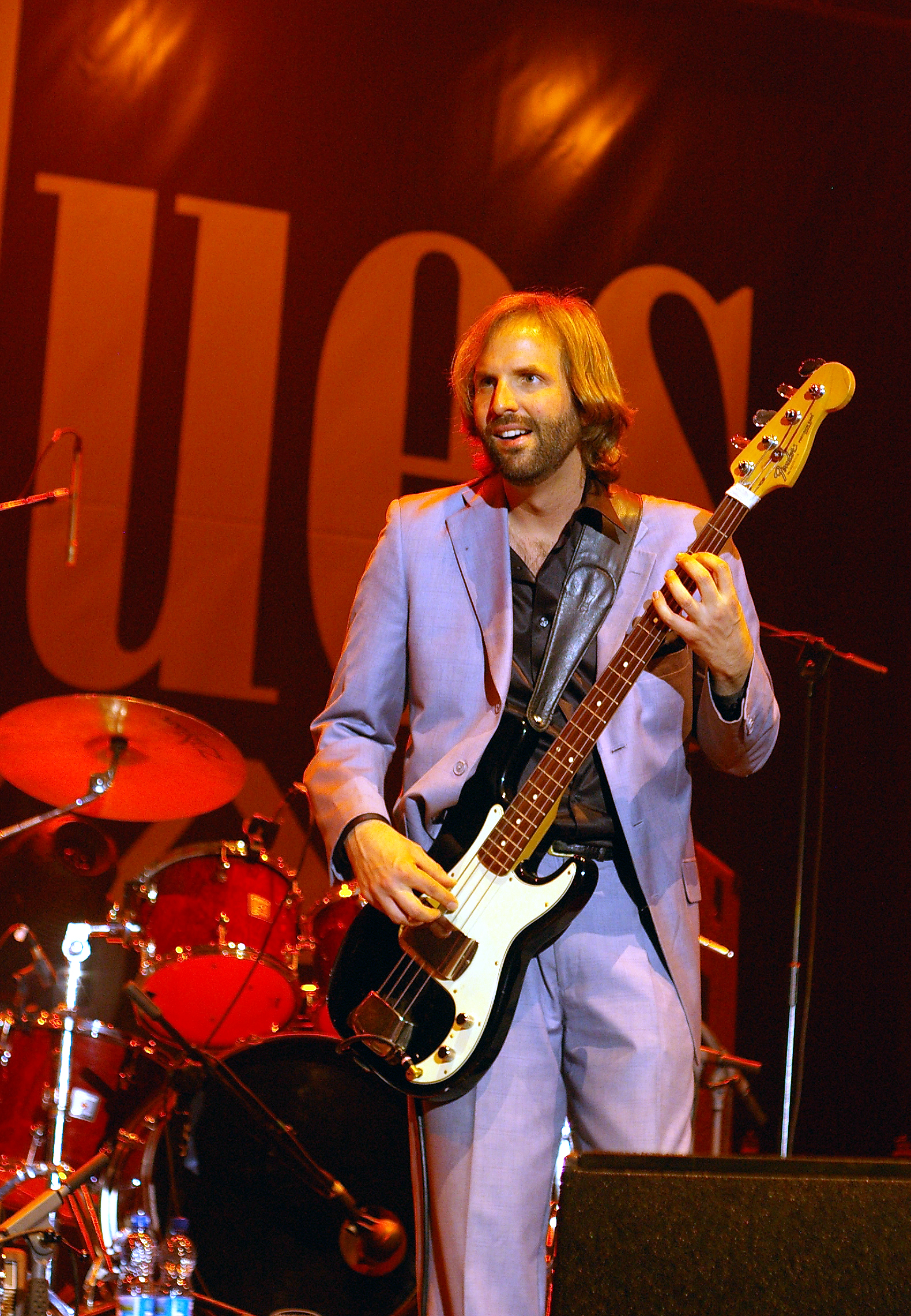 Taking of this photo was in cooperation with Rawa Blues (homepage) Rick Estrin & The Nightcats with Charlie Baty podczas 30 Festiwalu Rawa Blues 2010 09.10.2010 Katowice Spodek